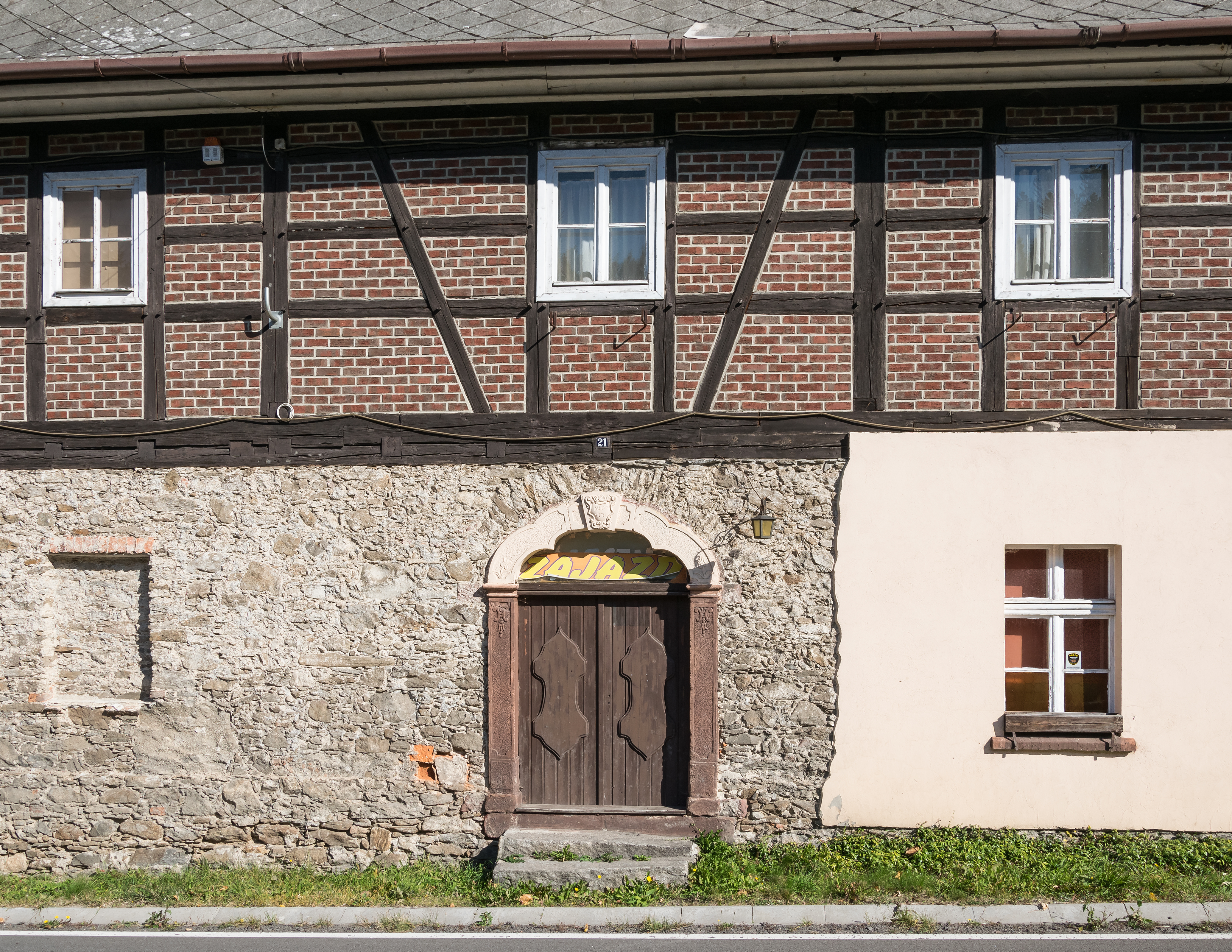 Pod Kukułką inn in Rzeczka